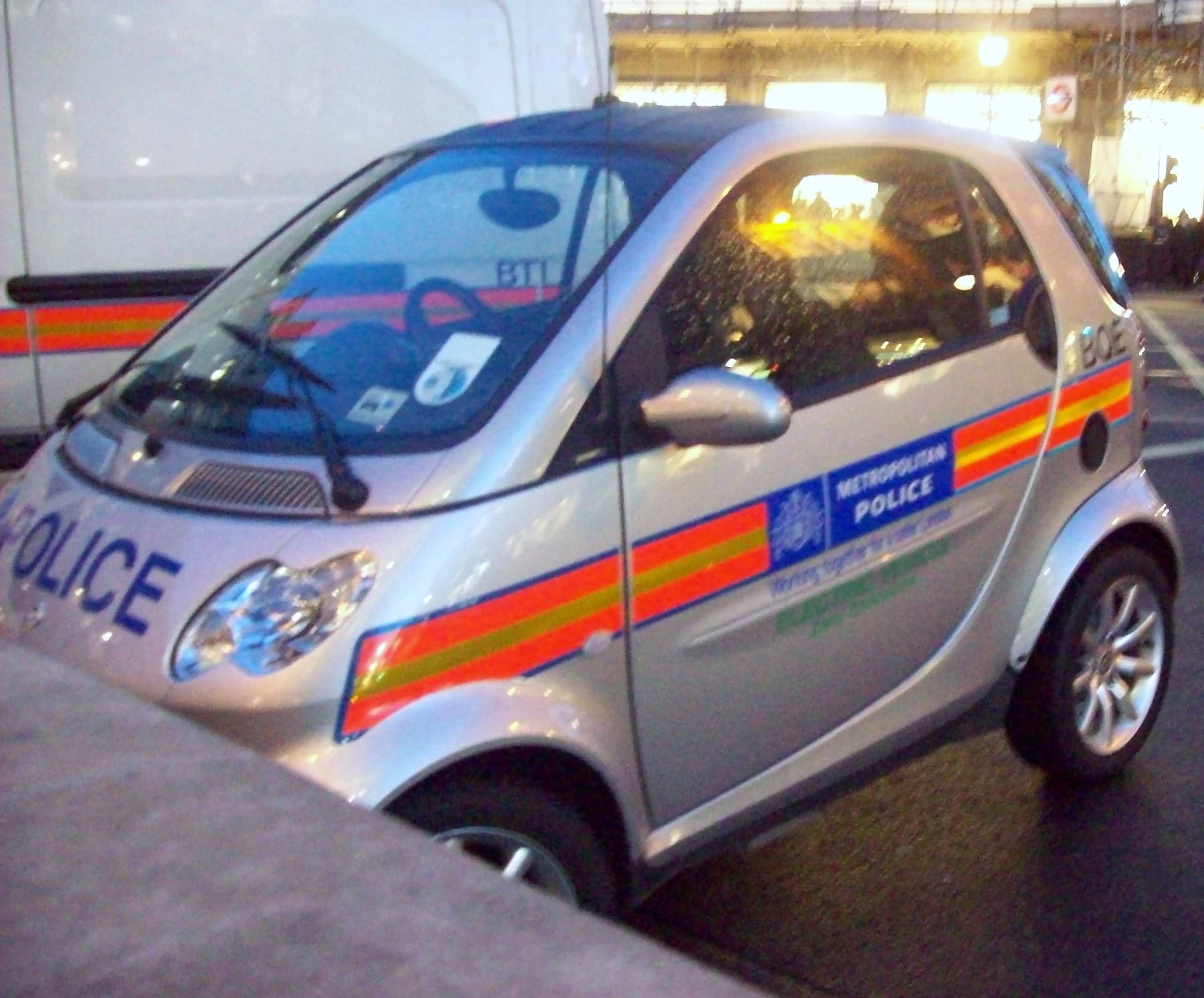 Smart EV Police Car in London City Centre